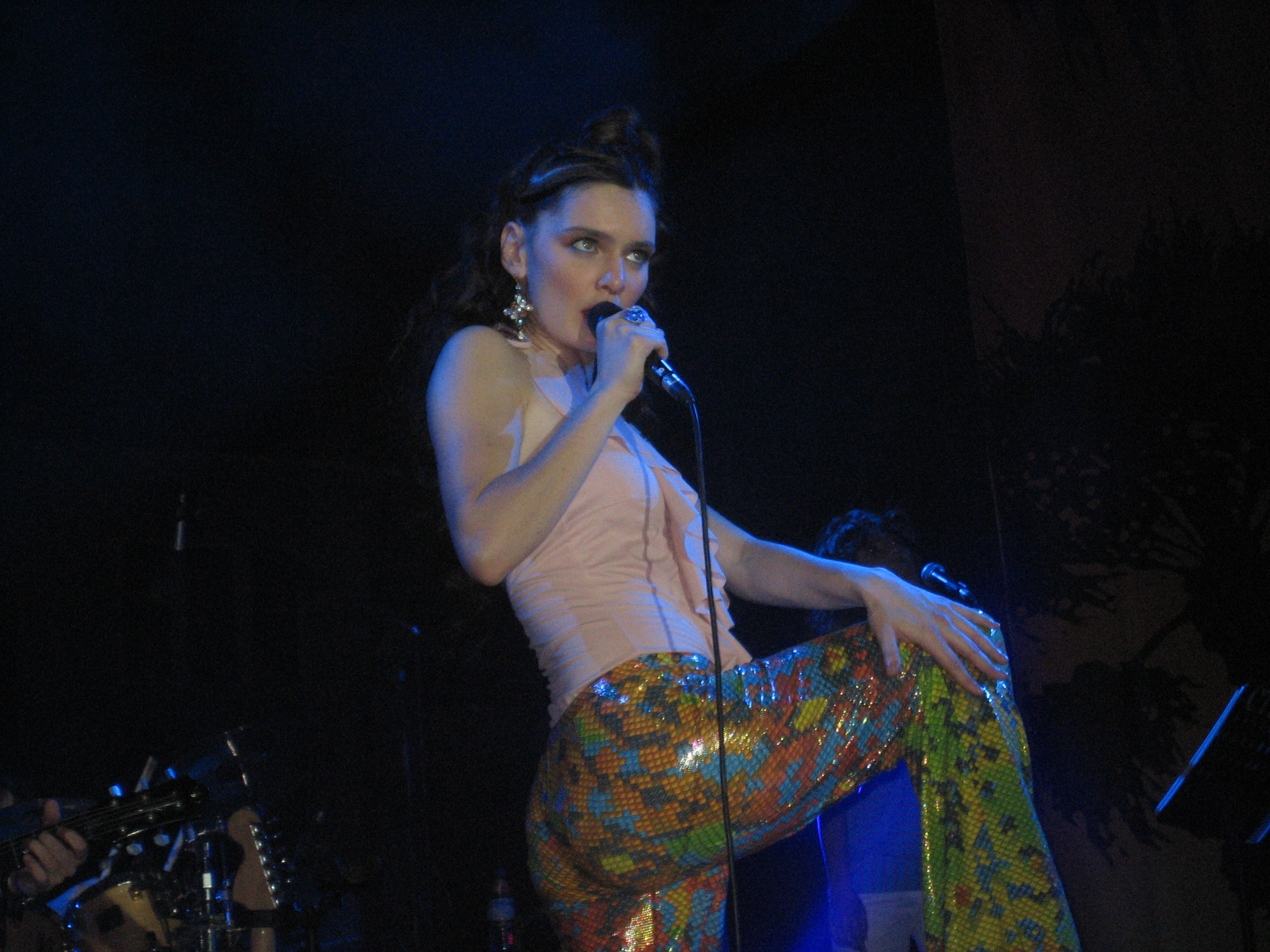 Nil karaibrahimgil